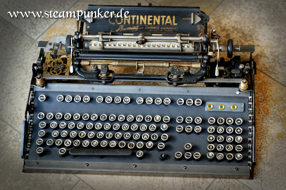 full working keyboard made from an old IBM model M keyboard and parts from an old Continental typewriter